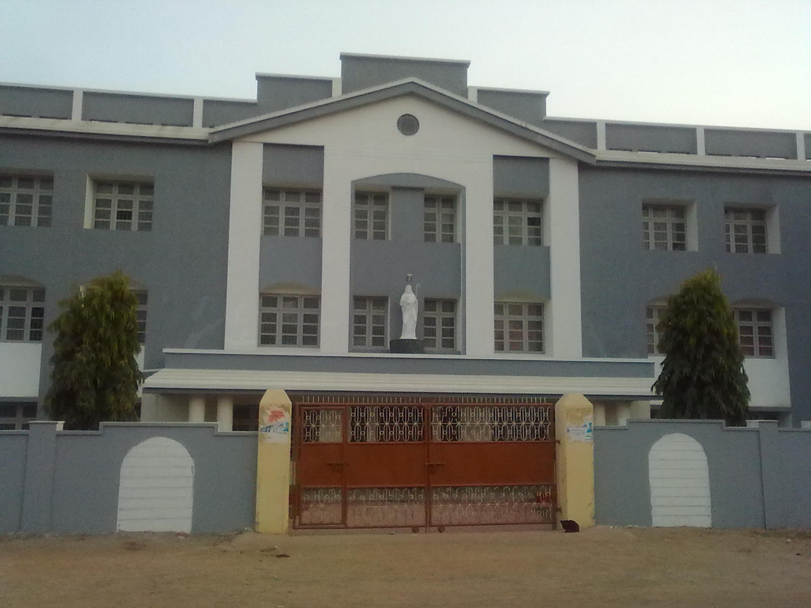 Good Shepherd Convent, Shahdol